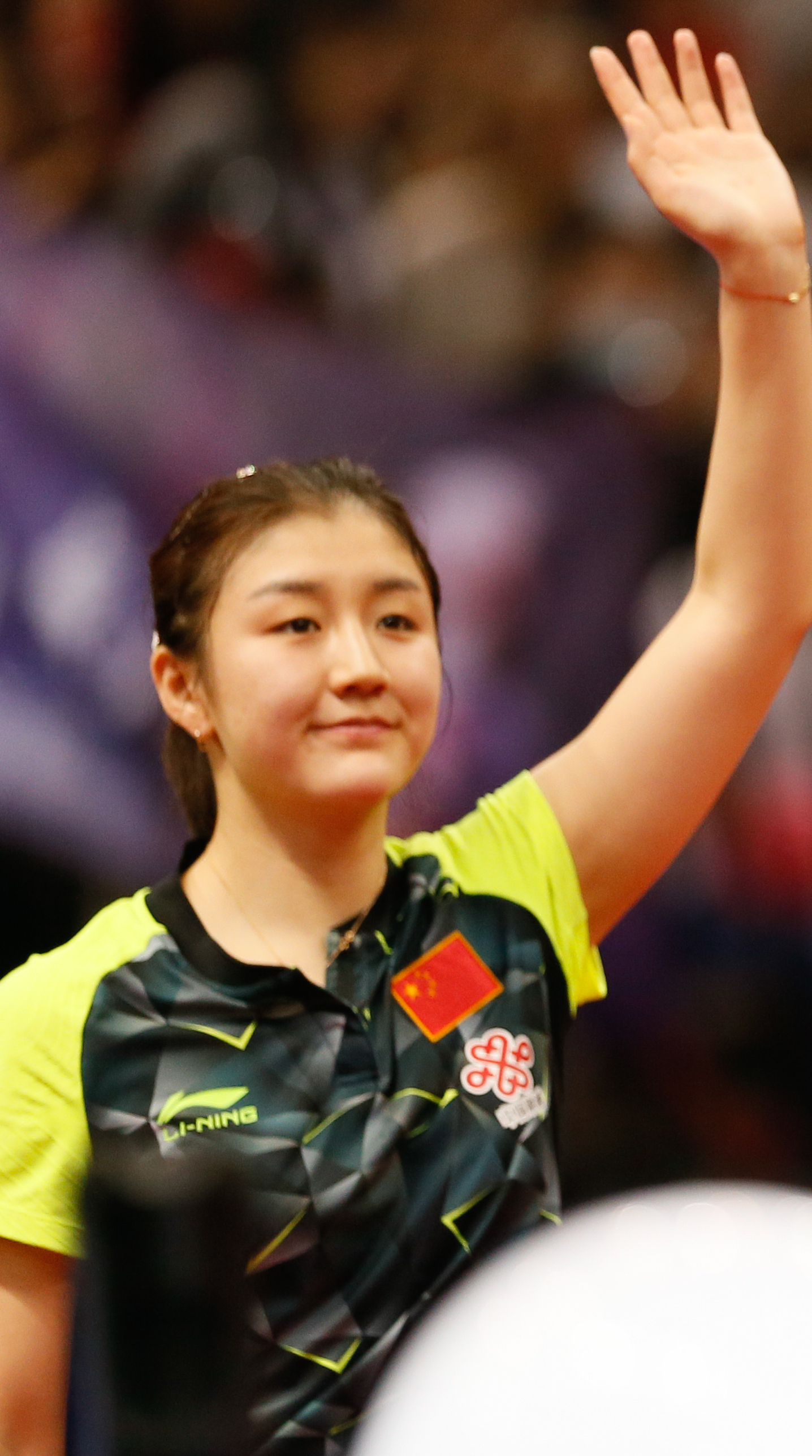 Chen Meng during the 2017 Asian Table Tennis Championships